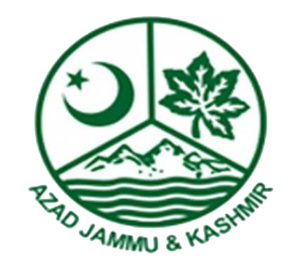 Emblem